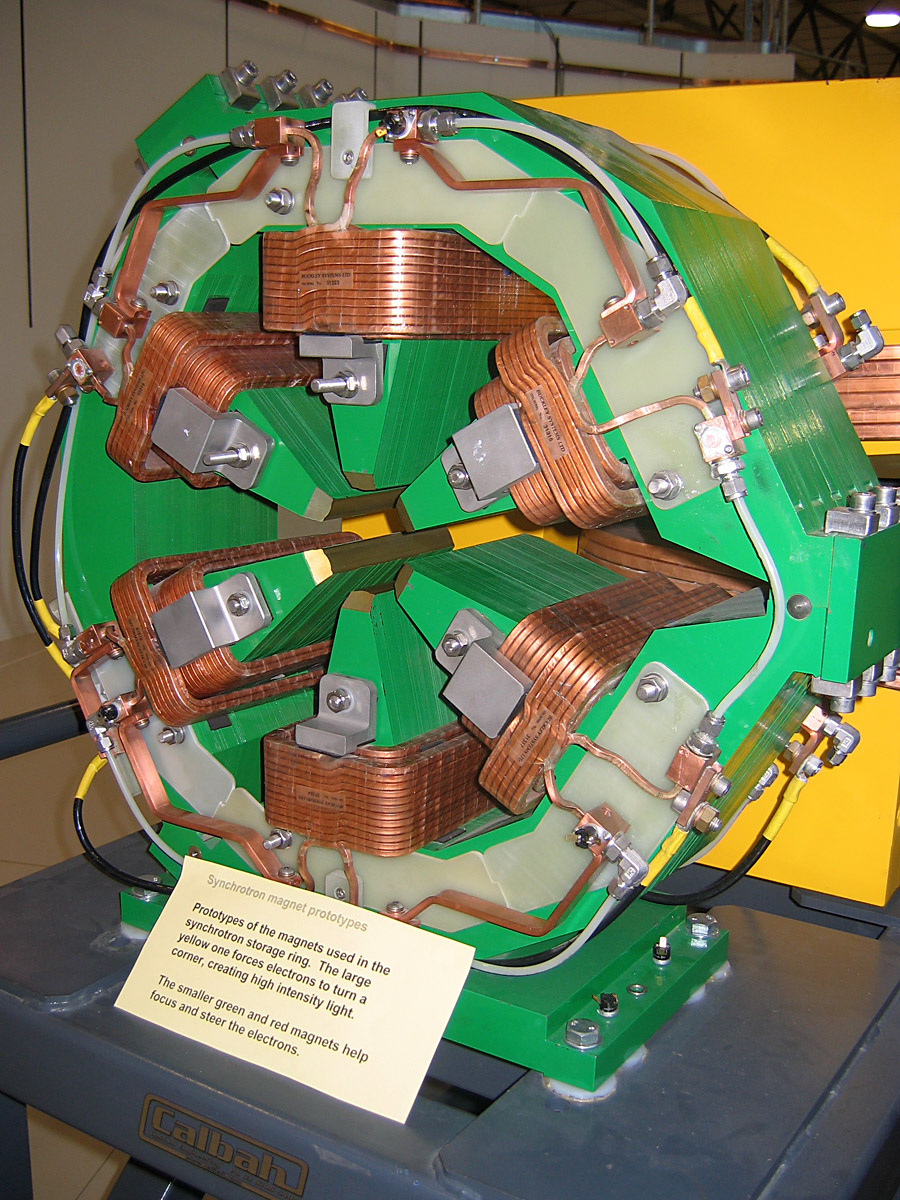 Sextupole magnets used for focussing the electron beam in the storage ring, as used at the Australian Synchrotron, Clayton, Victoria.